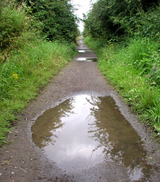 Half Puddled Trackbed, west south west of Preston, East Riding of Yorkshire, England.The Hull to Withernsea railway trackbed is normally easy to cycle along... but not when it's 'half puddled' after recent heavy rain!